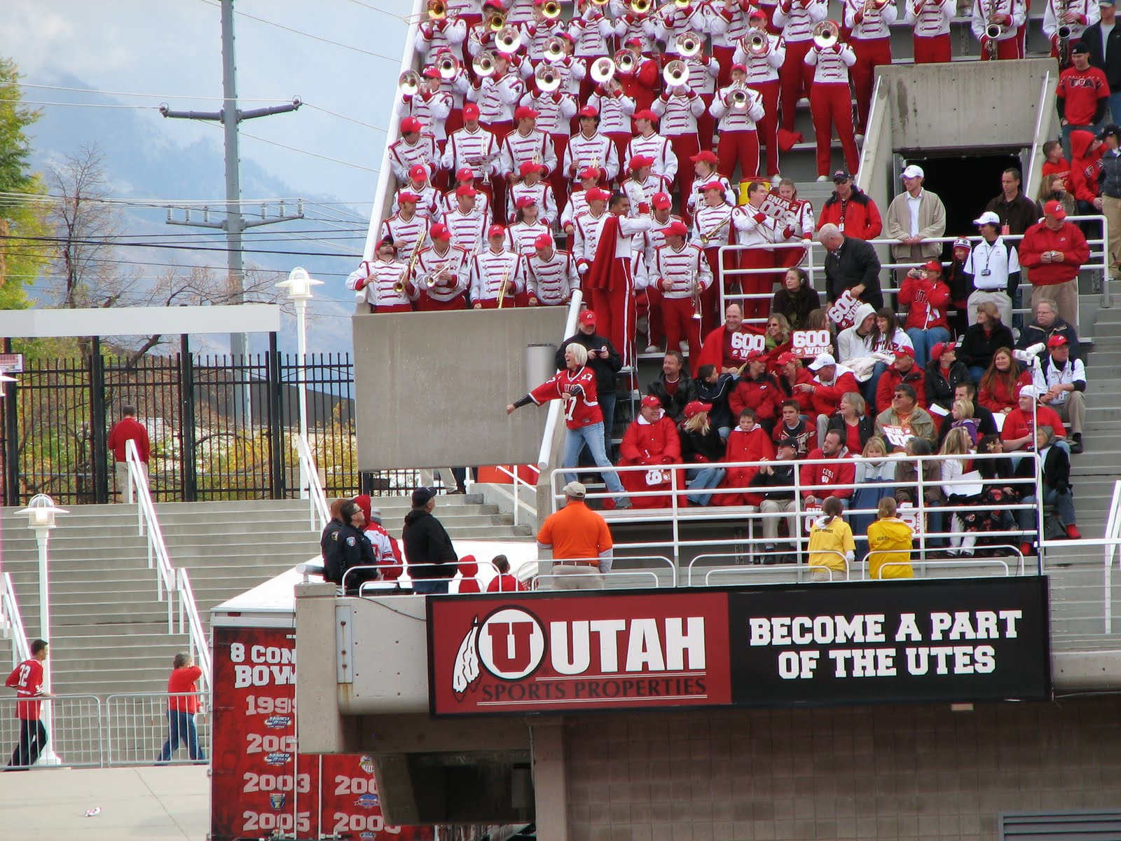 "Crazy Lady" dances in front of the Pride of Utah.[1]